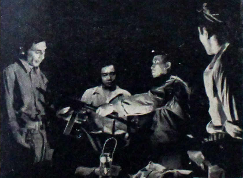 A scene from Lewat Djam Malam